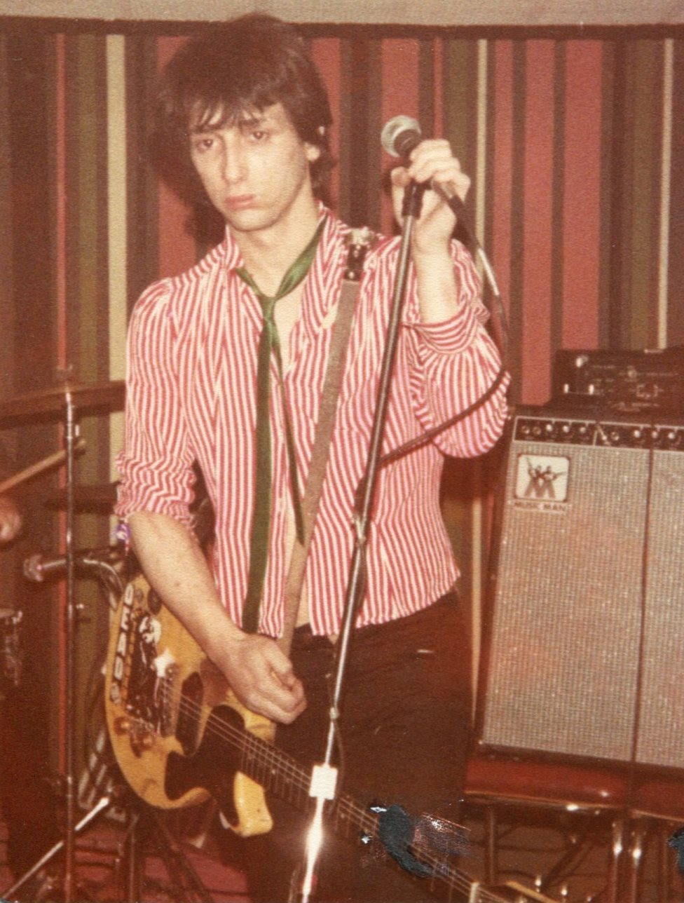 ANN ARBOR, Mich. -- 1979. Johnny Thunders. Thunders was performing at the VFW Post in Ann Arbor, Michigan. At that time he was collaborating with Wayne Kramer of the MC5. The two lead guitarists called their band Gang War. The image is a scan of a surviving print - there are scuff marks on the bottom right that may be cropped out for reproduction.